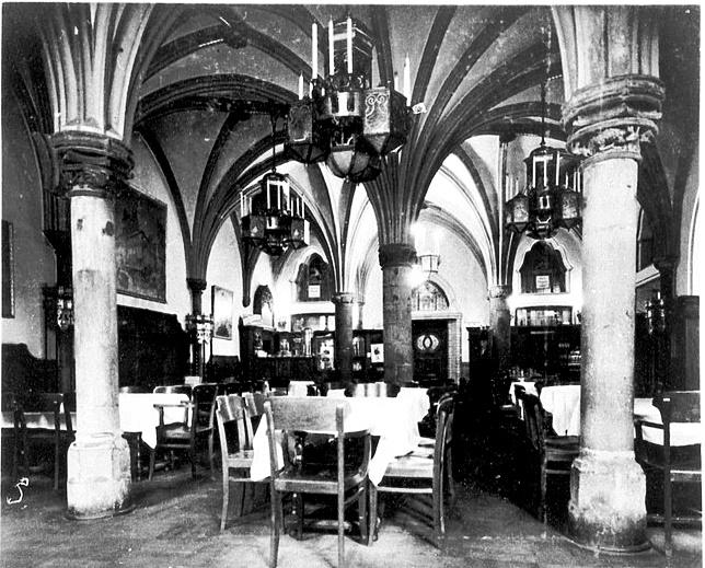 Leonhardskapelle Augsburg, um 1910, vermutlich erbaut um 1350 von den Patriziern Ilsung. Das Anwesen mit Kapelle wurde später Stammhaus der Welser. 1944 zerstört, Gewölbe in der Fuggerei wieder aufgebaut.